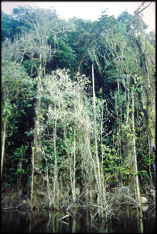 Photo made in the Sinnamary river basin on the Kursibo river (or Courcibo), in french Guiana, at the end of the rise of the waters induced by the dam EDF de Petit saut, December 1995. All the trees drowned by the dam had a root system and a metabolism not adapted to immersion ; they have lost all their leaves in a few months and have drowned, producing for some years the ghost forest or gray forest ; only a few epiphytic plants resistant to the sun have survived on the trees